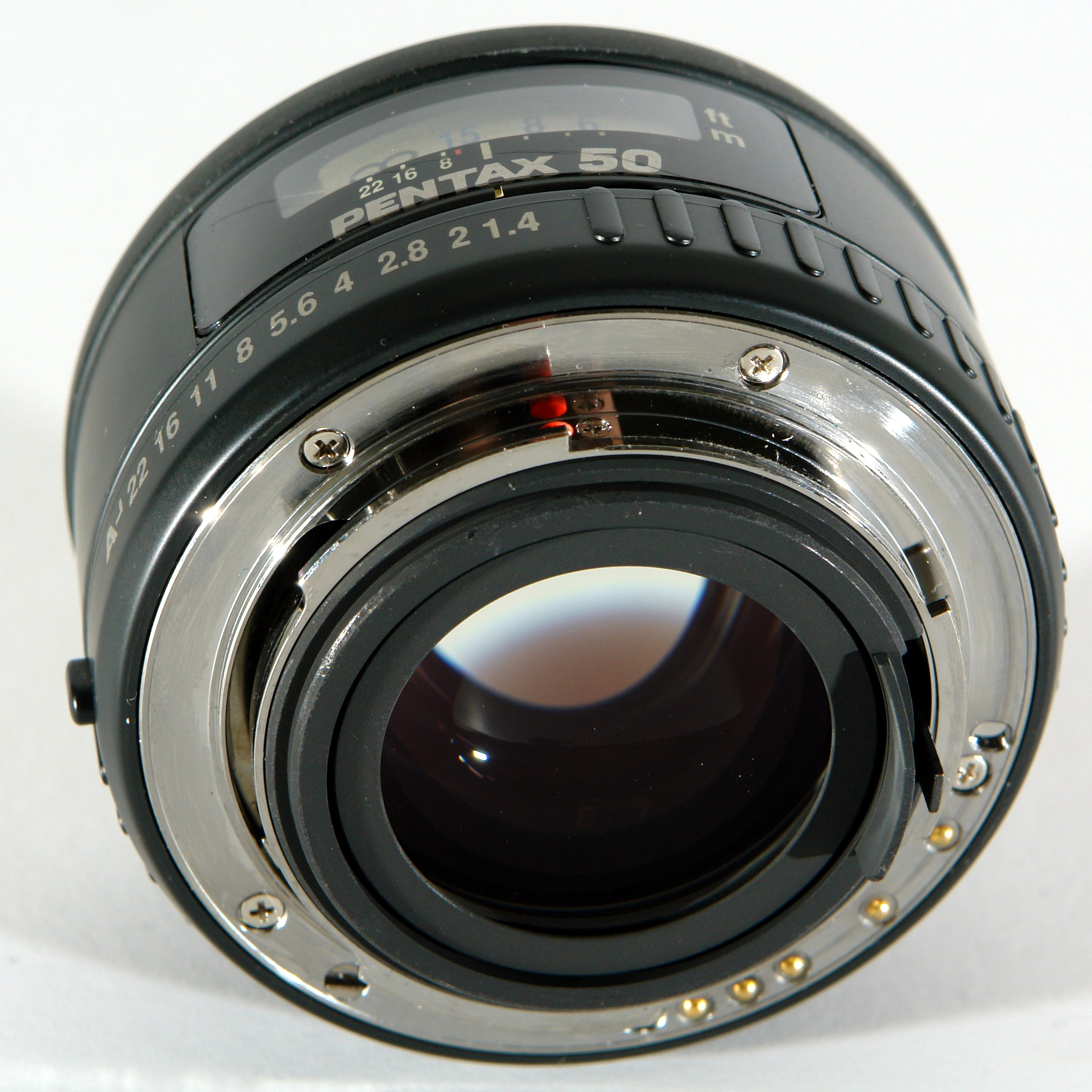 Pentax SMC FA 50mm f/1.4 K-mount lens